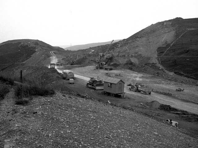 M62 construction, Castle Hill, in Milnrow, Greater Manchester, England.